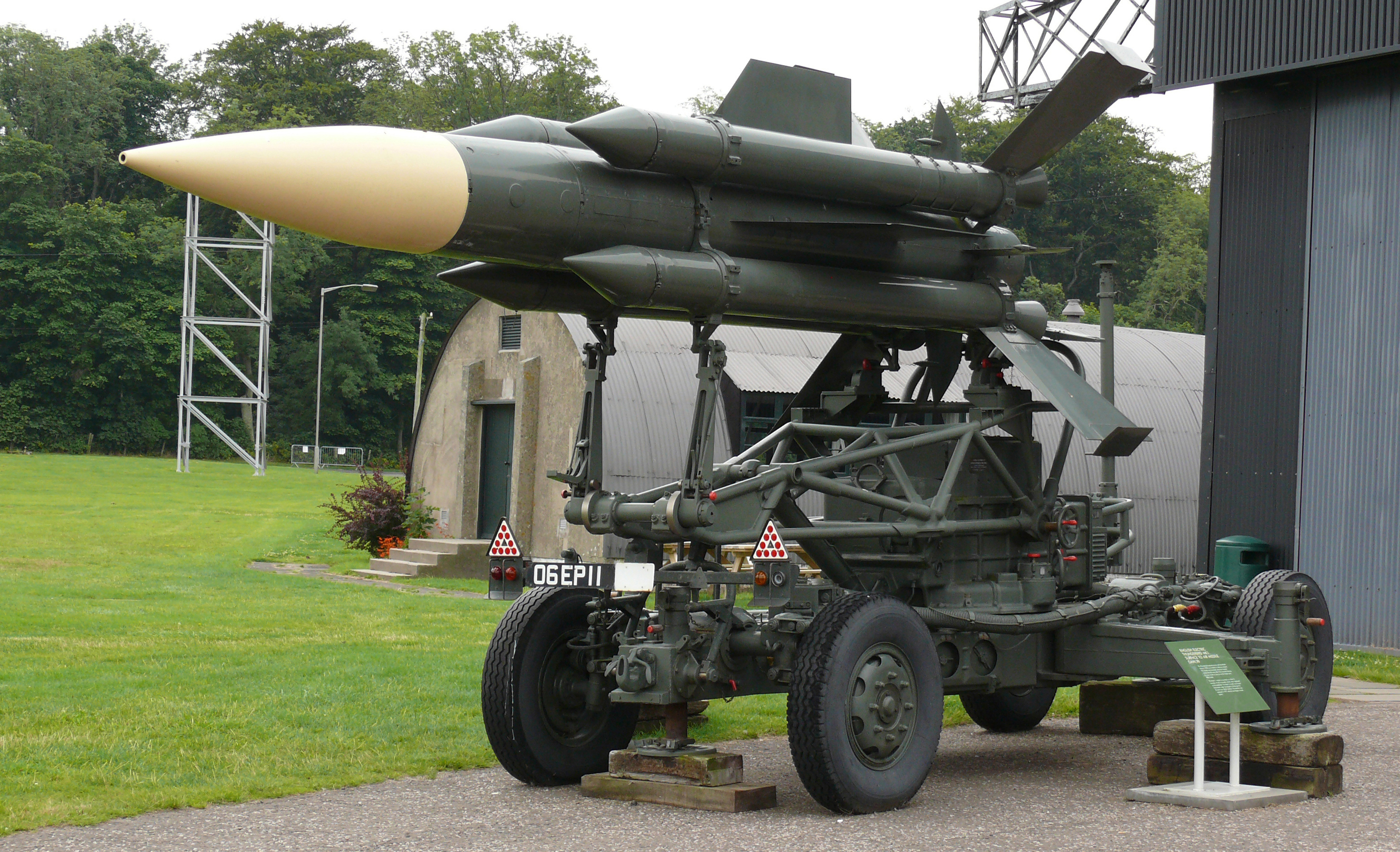 English Electric Thunderbird in the National Museum of Flight in East Fortune, East Lothian, Scotland.